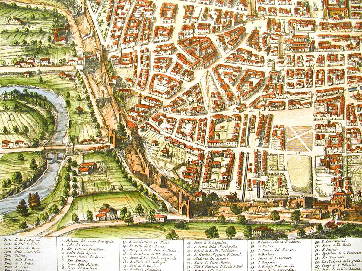 Maps of Bologna (fragment)